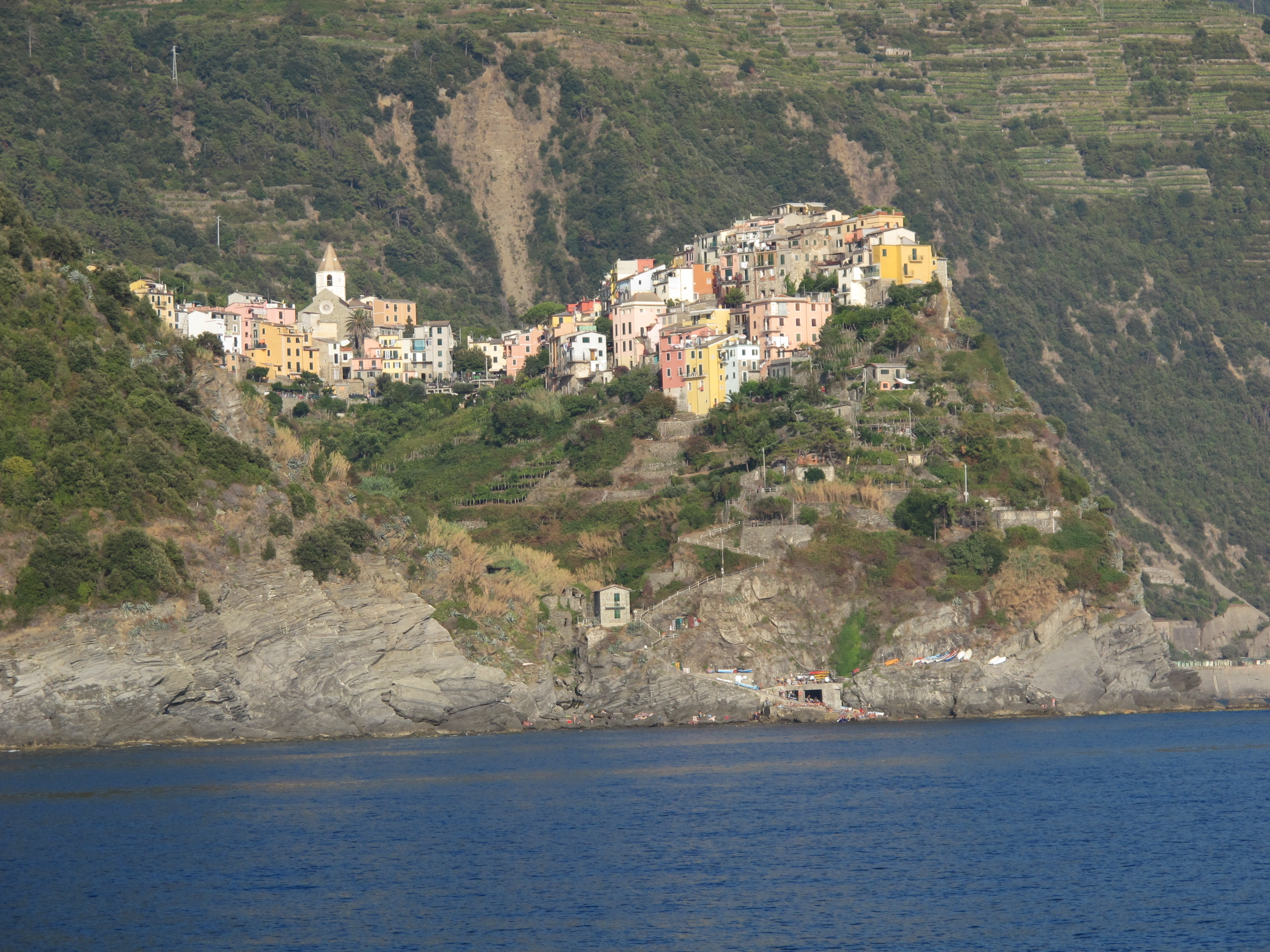 Coast of Corniglia, rock and some small boats.